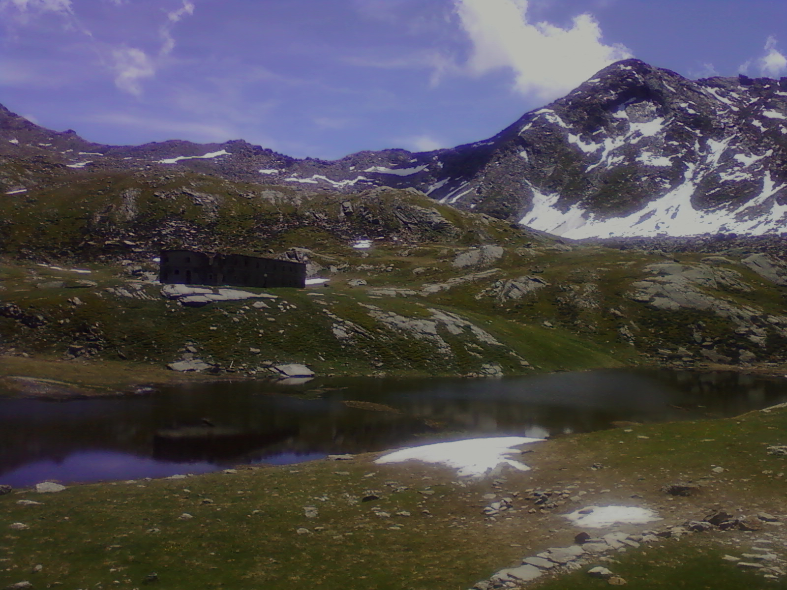 A picture of the Altopiano dei Tredici Laghi, a small plateau located in the Cottian Alps, Italy, near Prali. In the photo, the Lake Drajo, one of the thirteen lakes whence the plateau takes its name, and the Ricovero Perrucchetti, a dismissed barrack: in the background on the right can be seen the Punta Cornour.